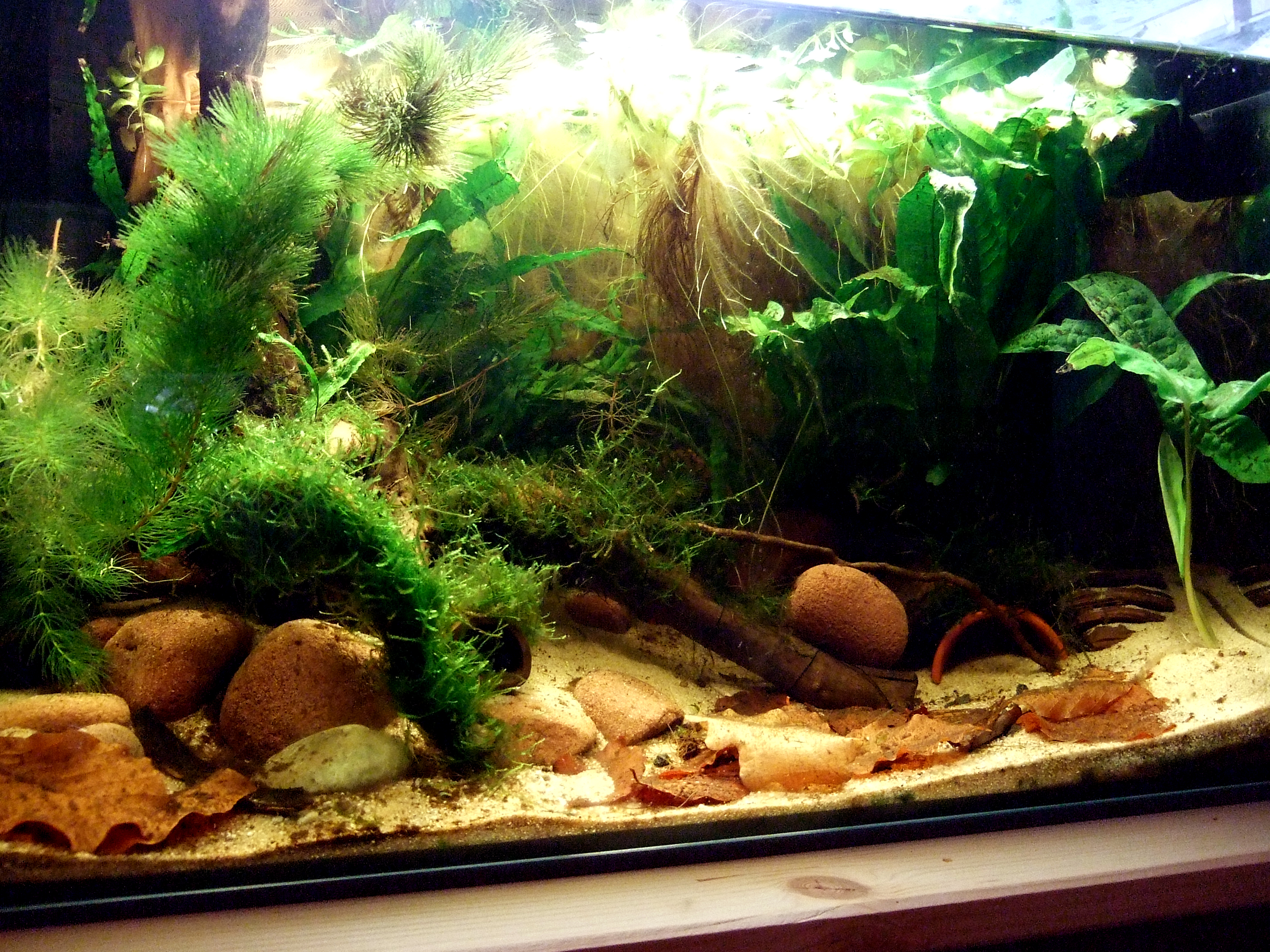 Aquarium for licorice gouramis